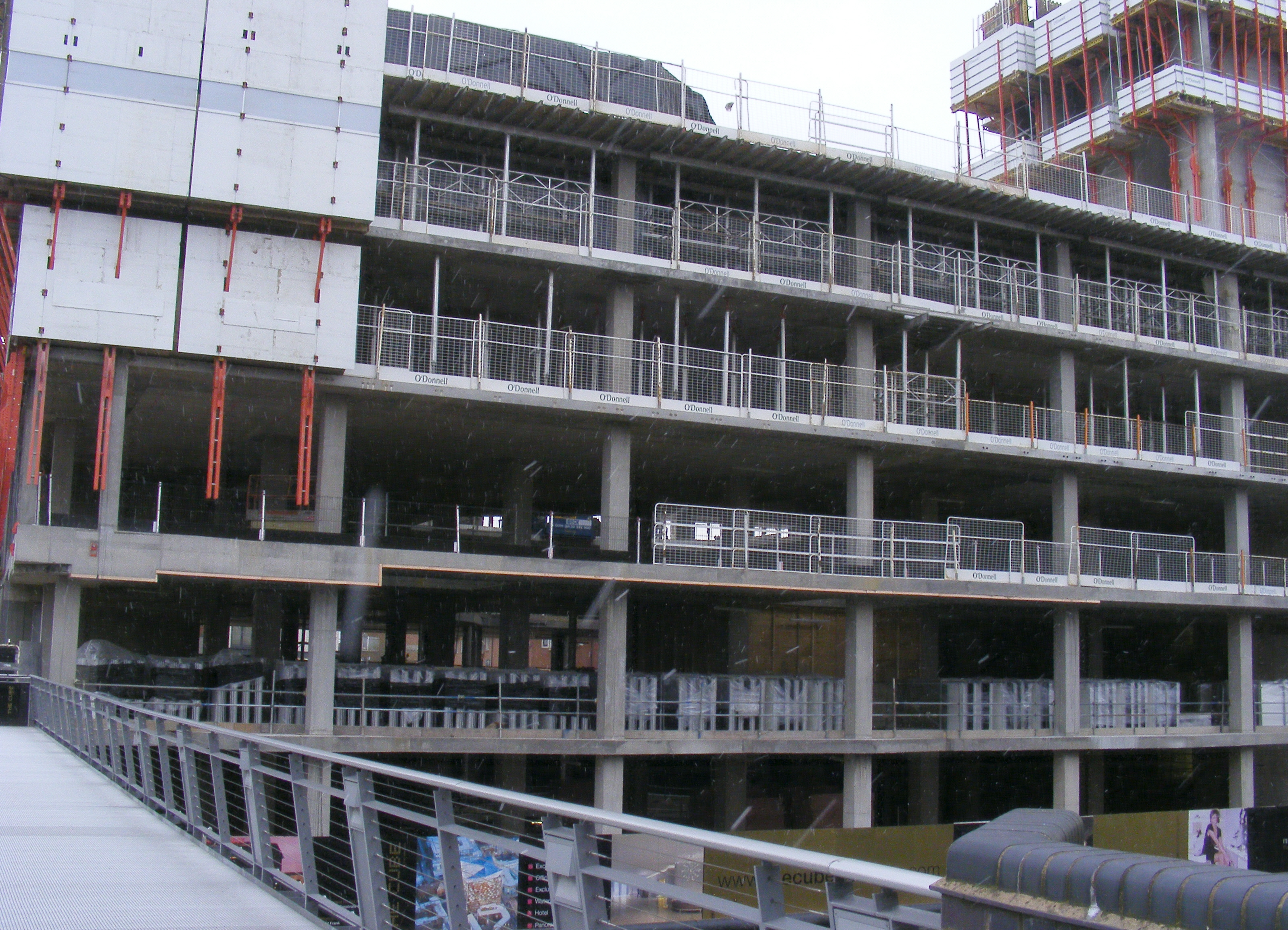 Building The Cube, last component of The Mailbox, Birmingham, England. This canalside section is the final stage of The Mailbox complex. The white streaks are the beginning of the February 2009 snow.